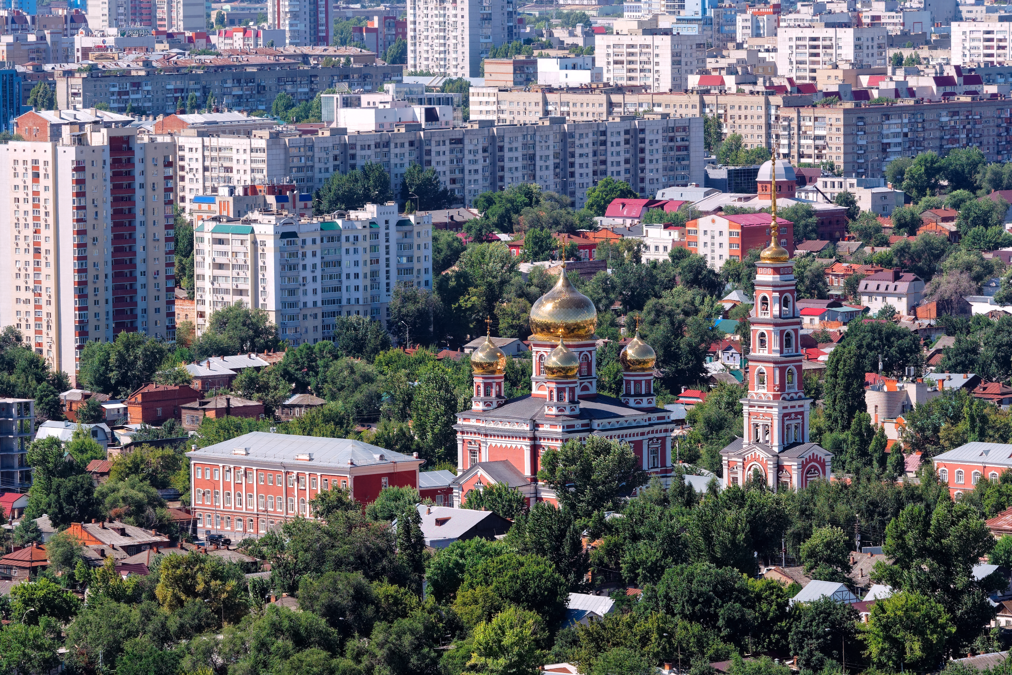 Saratov. Church of the Protection of the Theotokos.